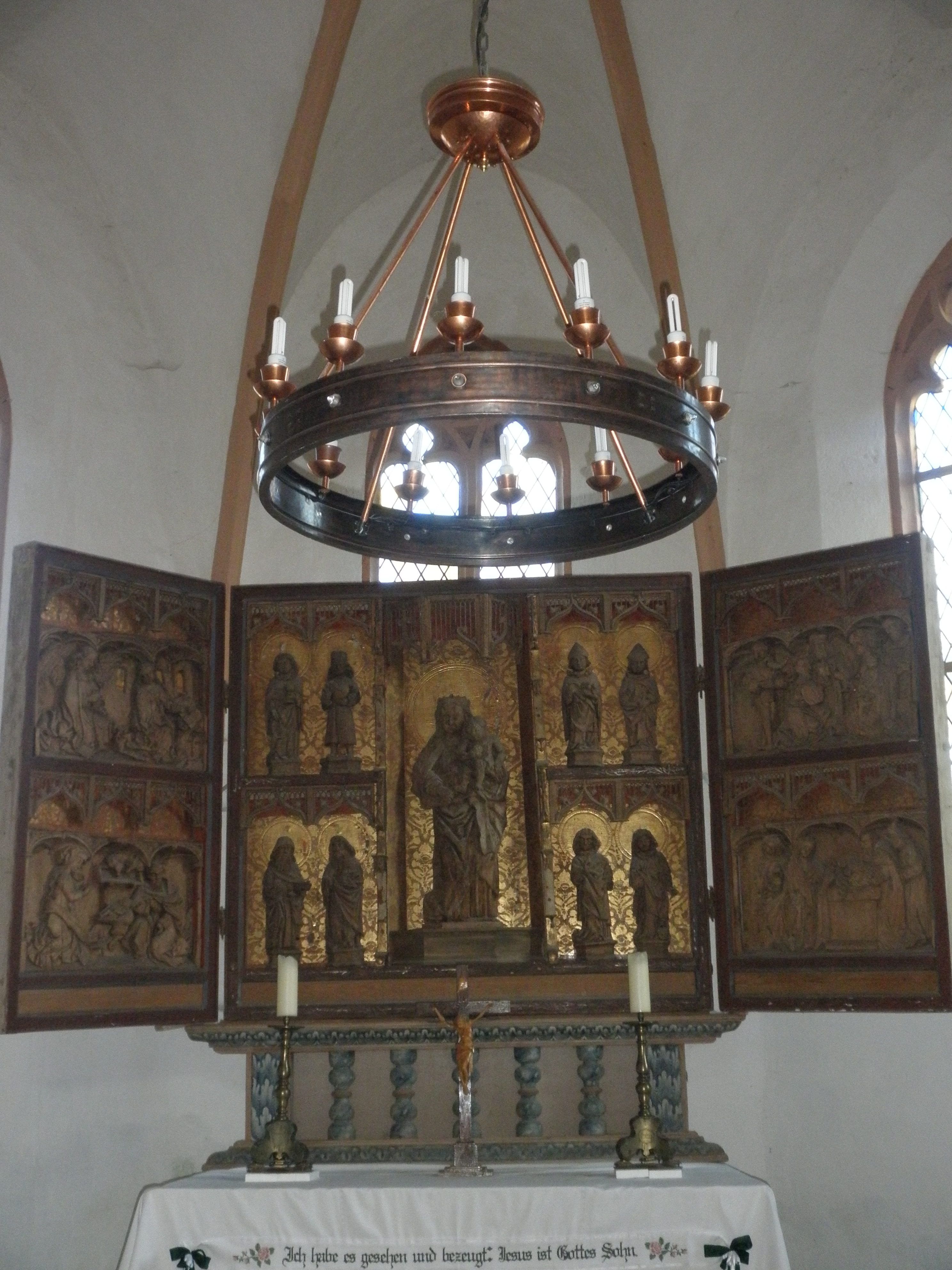 Altar of the Church in Frömmstedt in Thuringia